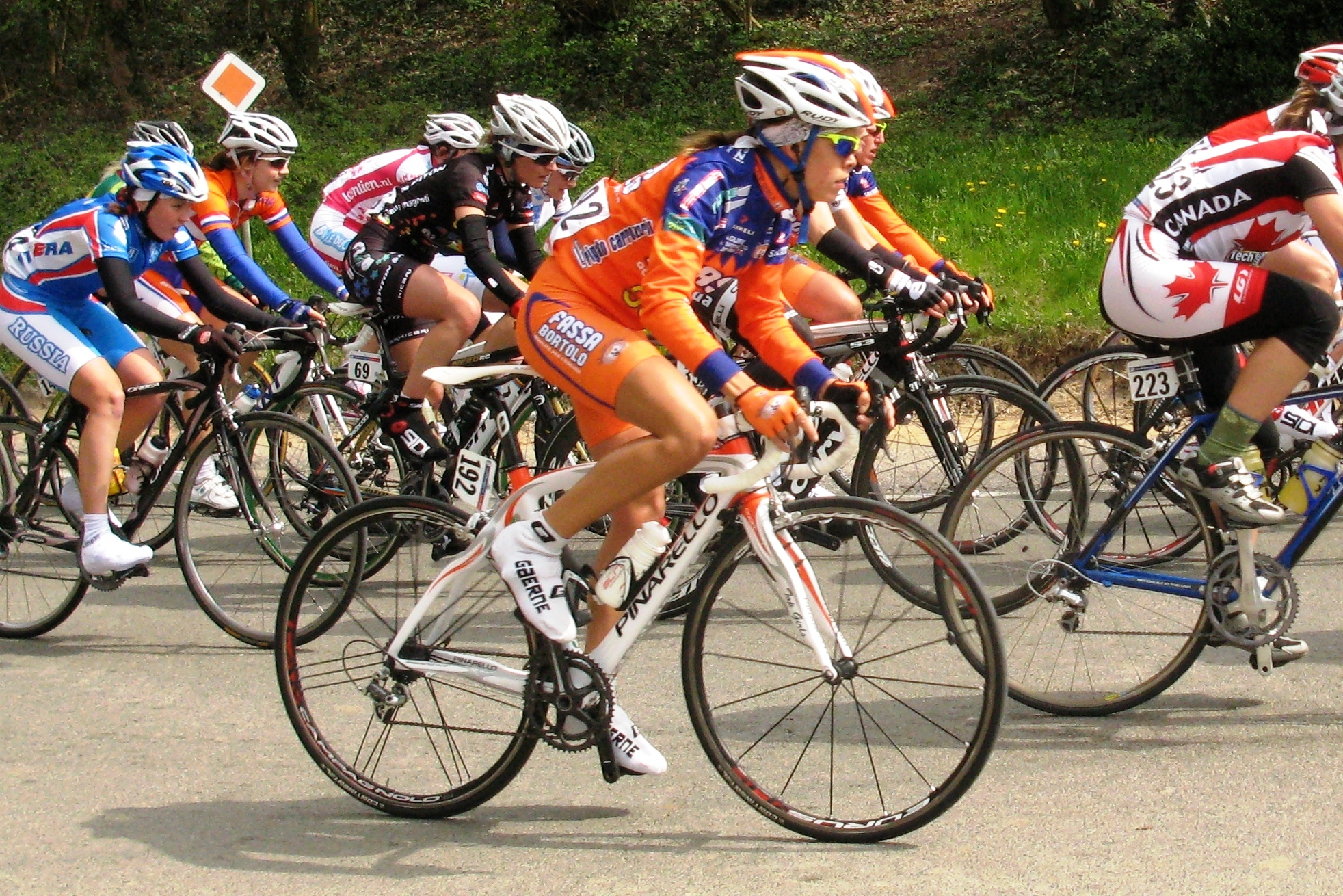 Elana Berlato at the 2010 Flèche Wallonne Ladies climbing the Ben-Ahin hill near Huy